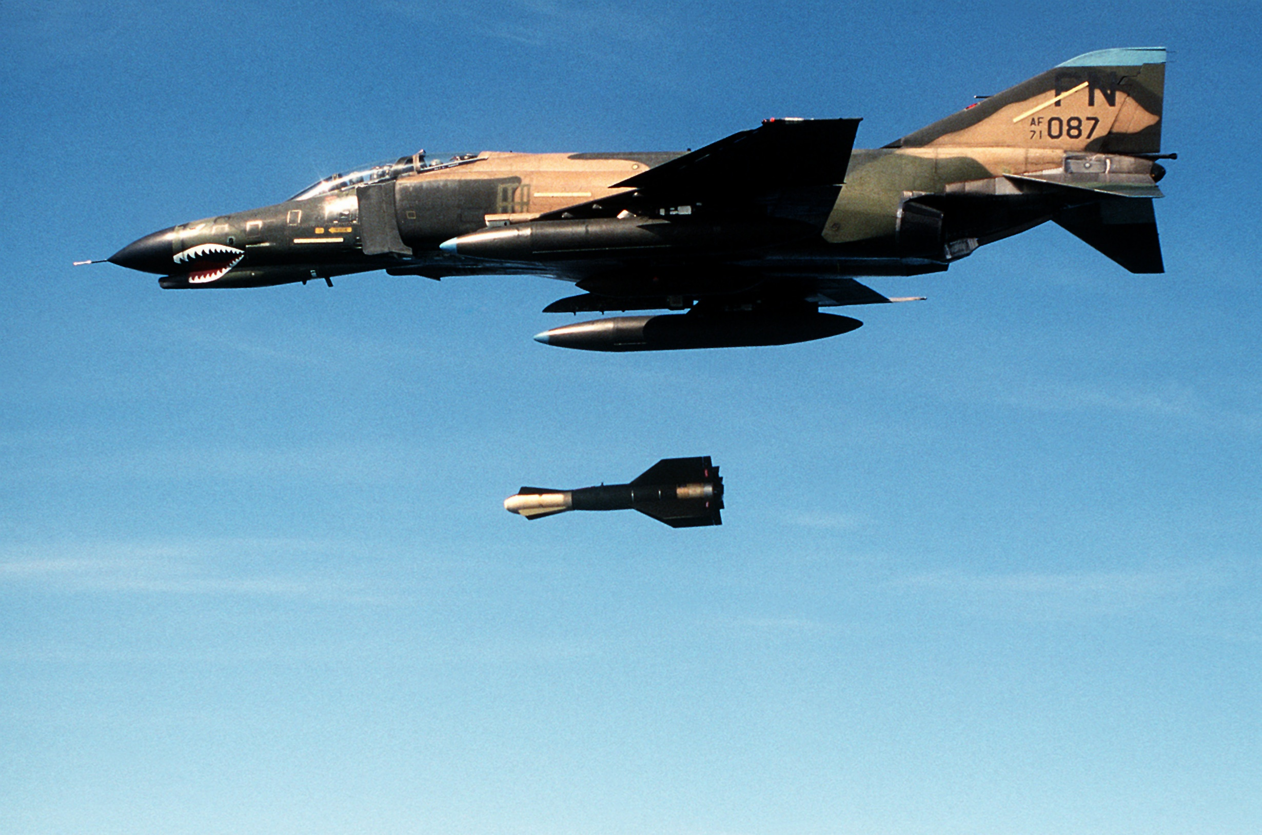 A U.S. Air Force McDonnell Douglas F-4E-49-MC Phantom (s/n 71-1087) from the 3rd Tactical Fighter Wing, Clark Air Base, Philippines, drops a GBU-15(V)1/B modular glide bomb during "Exercise Team Spirit '85".